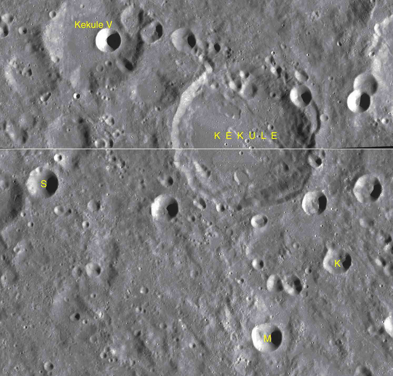 Parts of the charts LAC-52, LAC-70 used for the presentation